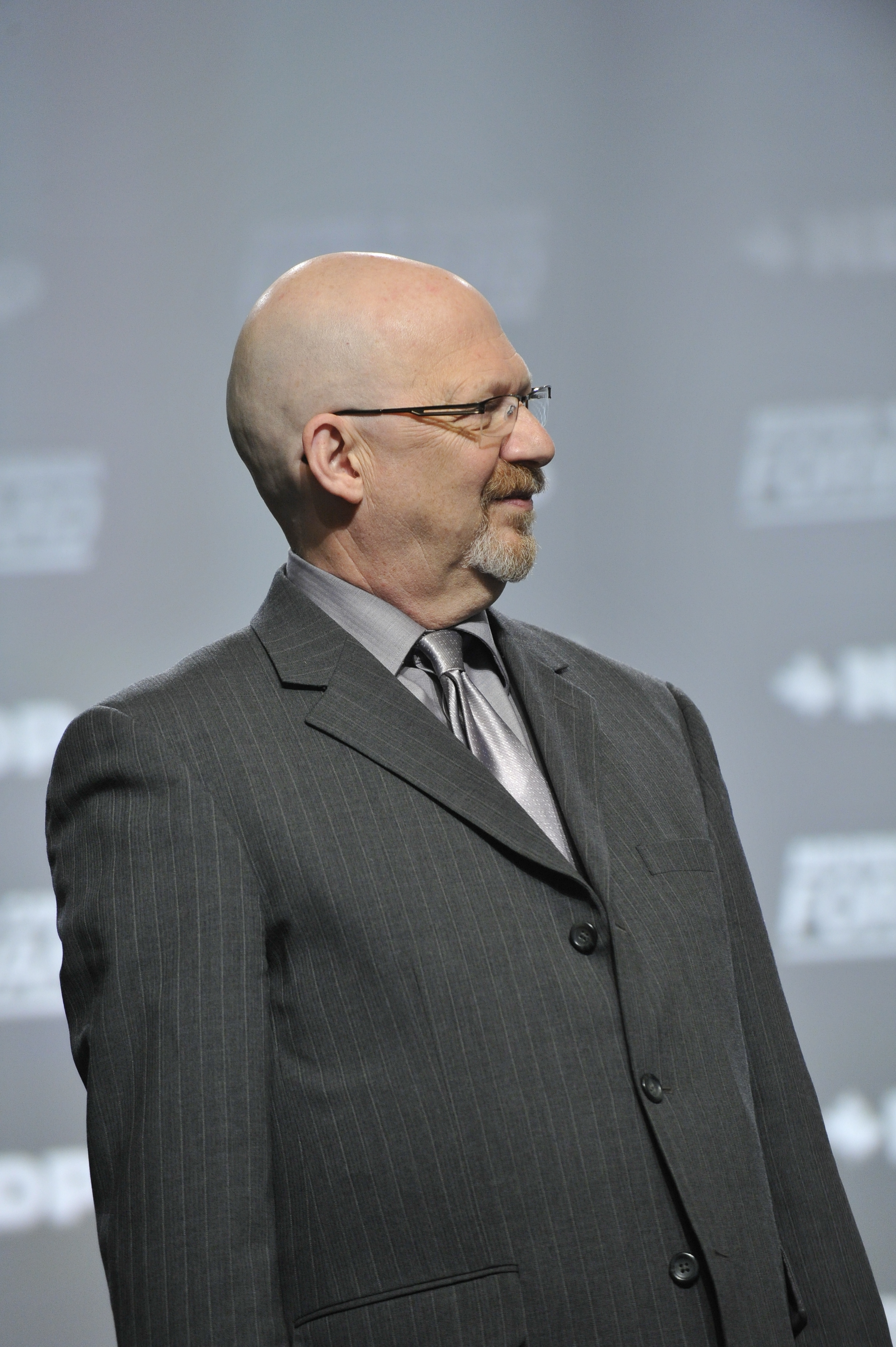 Randall Garrison